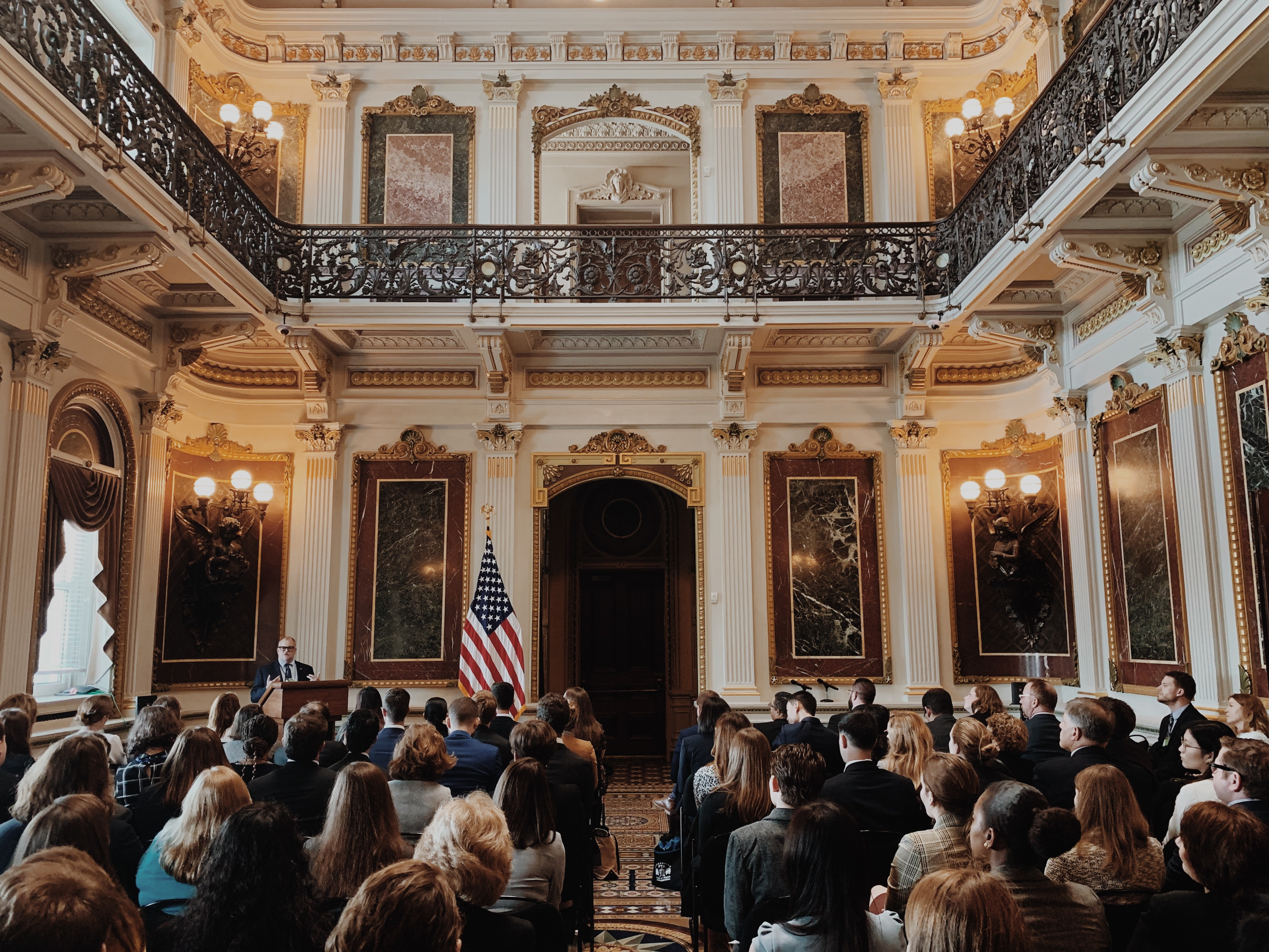 Fellows participating in the PMF Leadership Development Program (PMF LDP) three-day on-site in the Indian Treaty Room at the White House Complex.